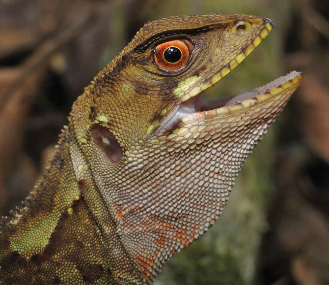 Adult female (CORBIDI 08826) of Enyalioides azulae. Photograph by P.J. Venegas.